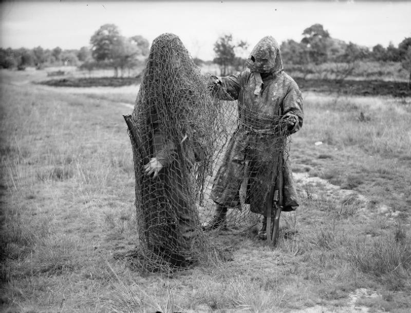 The British Army in the United Kingdom 1939-45 Two Lovat Scouts wearing sniper camouflage, Bisley, Surrey, 9 July 1940.